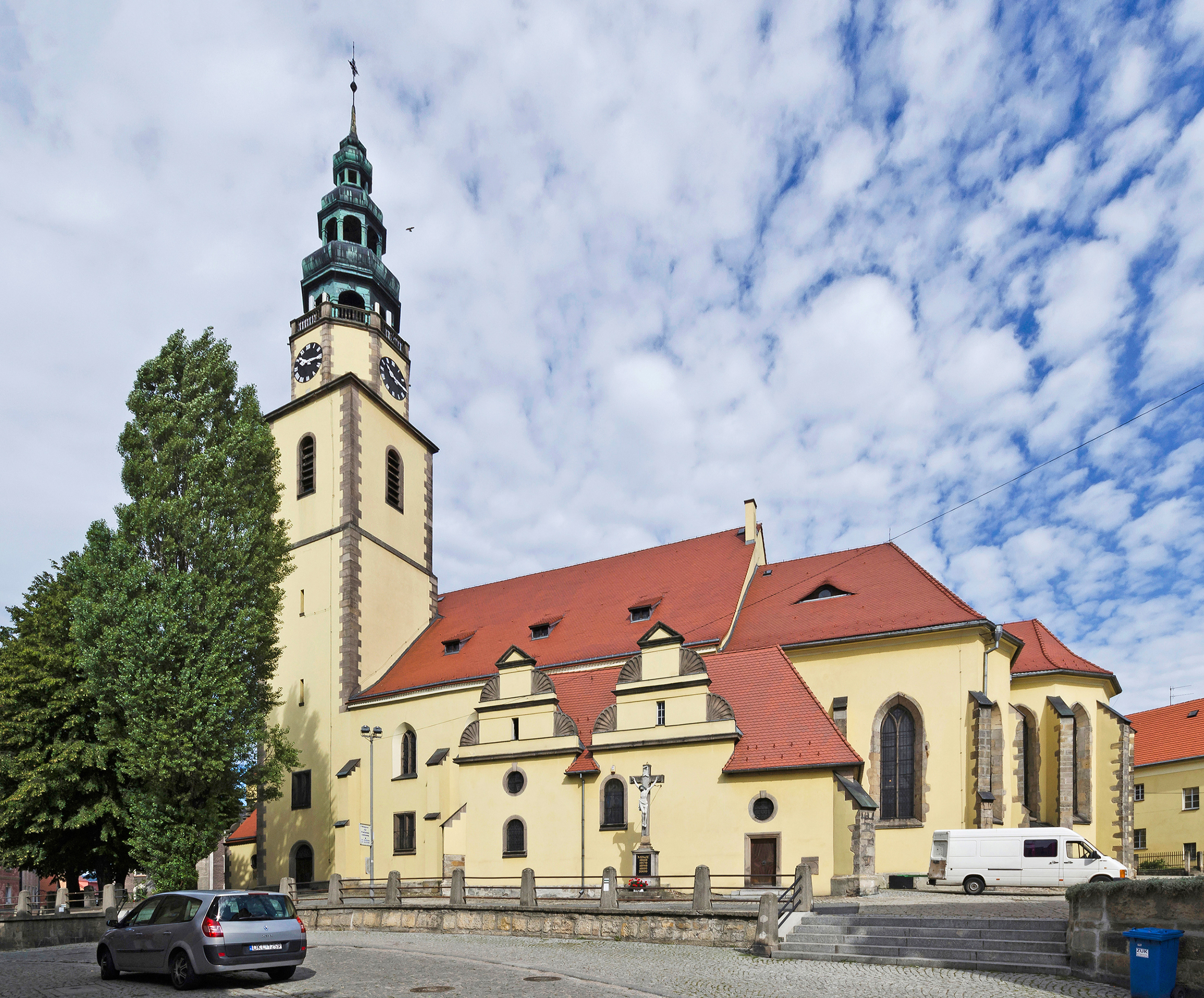 Saint Michael Archangel church in Bystrzyca Kłodzka